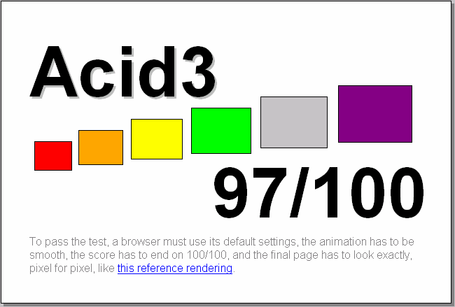 Result of Acid3 test on Firefox 4.0.